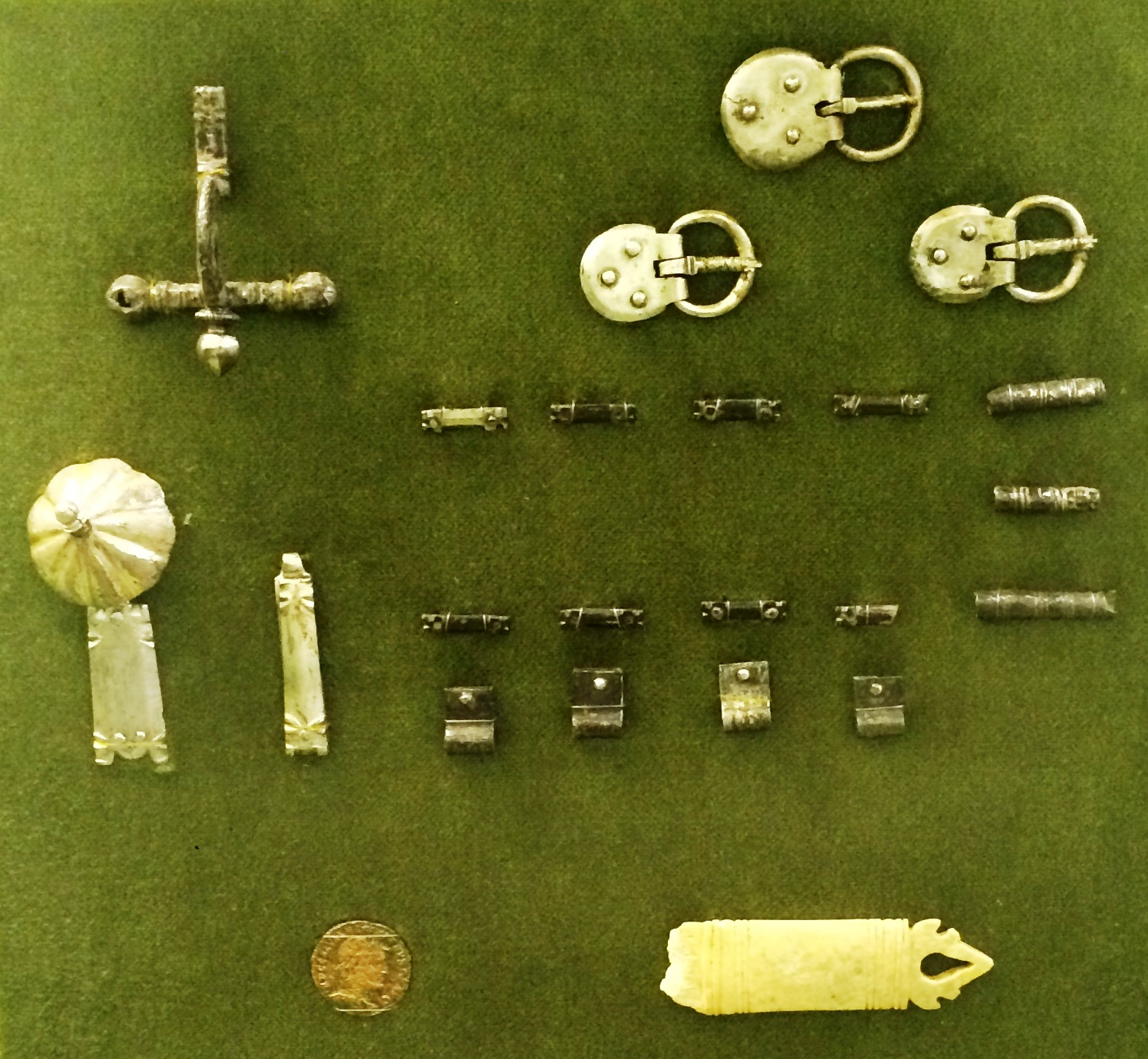 Artefact from the Hun period of Hungary (5th Century), found near Budapest. The Huns were a mongolic People who resided east of the Danube.